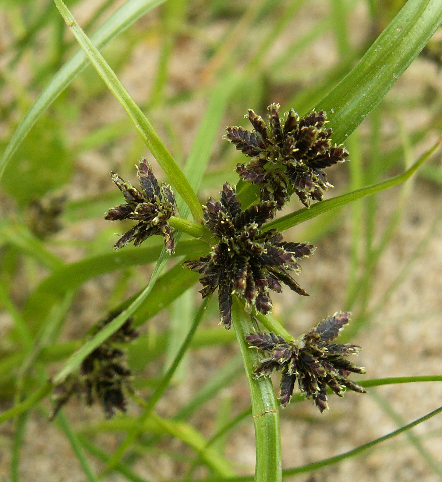 Cyperus fuscus on the Odra River banks near Zatoń, Western Pomerania, NW Poland